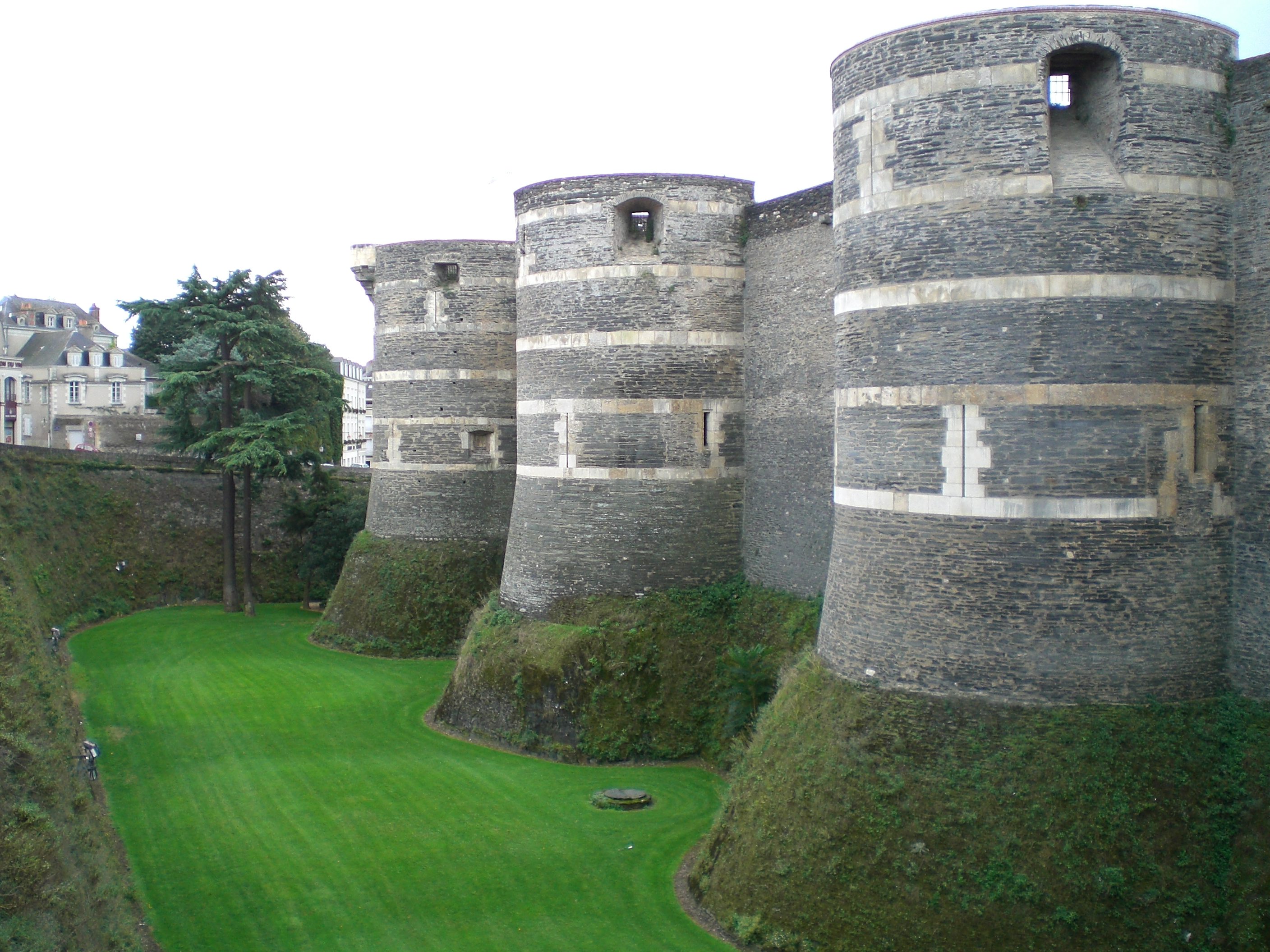 L'intérieur du Château d'Angers vue de la porte. It is indexed in the Base Mérimée, a database of architectural heritage maintained by the French Ministry of Culture, under the references IA49000839 and PA00108871.